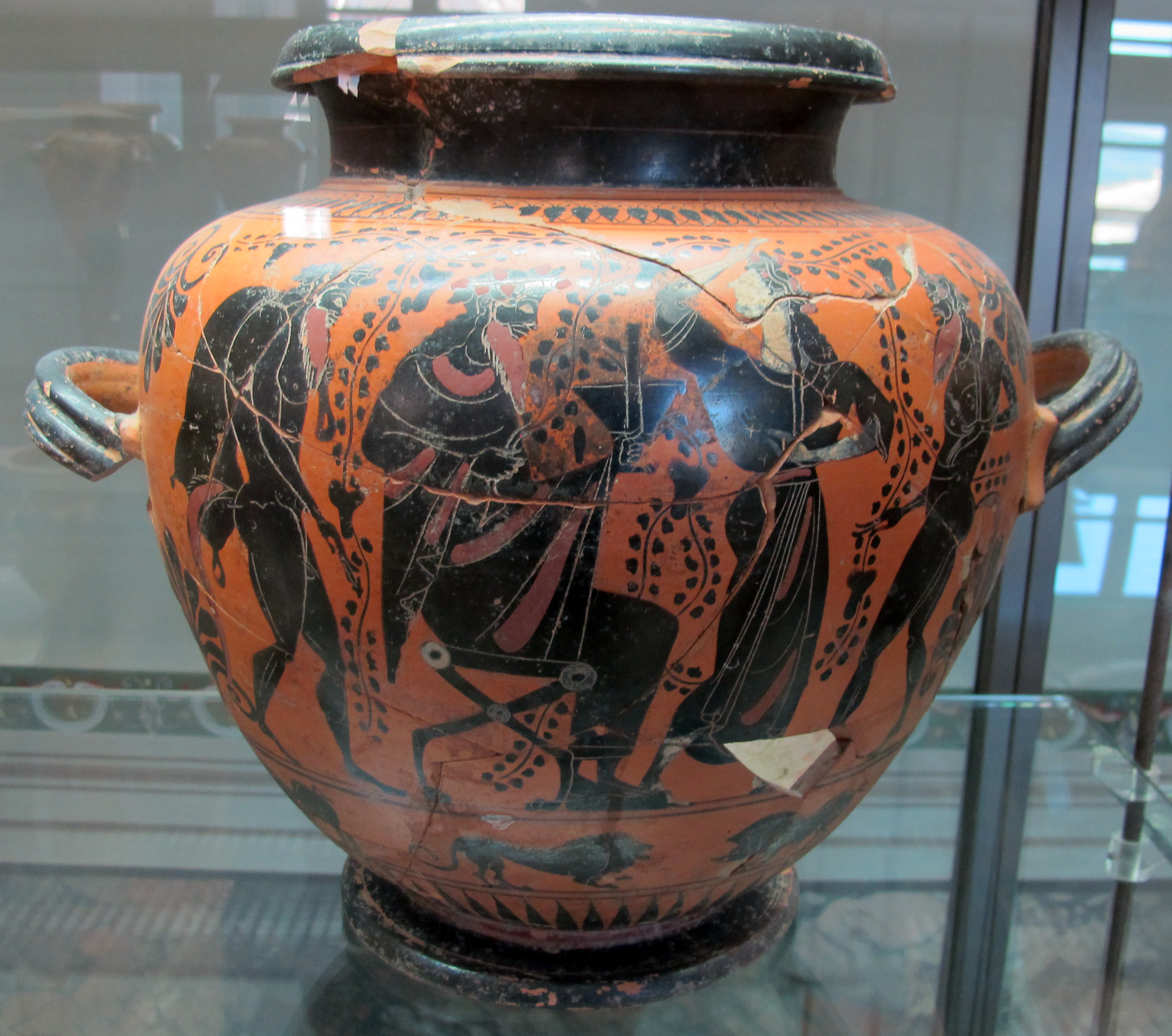 Stamnos with dionysian thiasus, Antimenes painter, Crocifisso del Tufo etruscan necropolis, 525-500 BC, Claudio Faina museum of Orvieto, Italy.